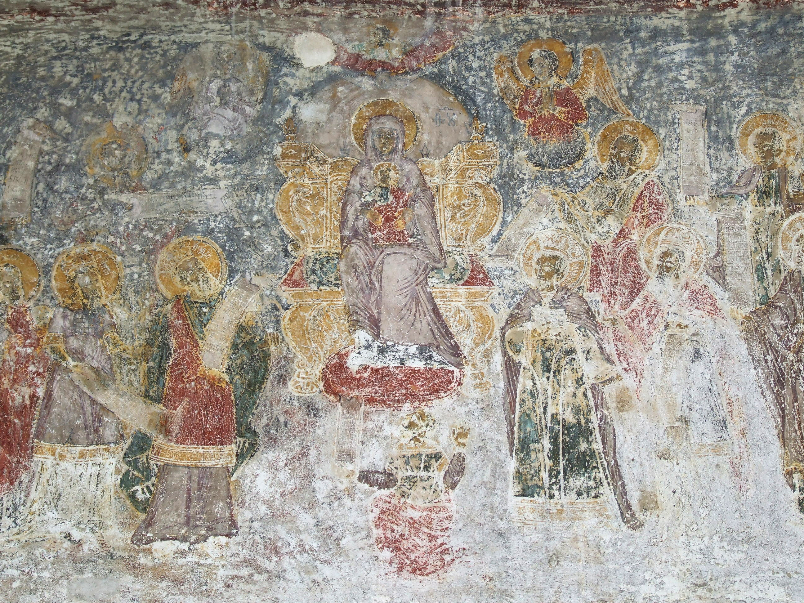 Old mural - exterior of St. Nocholas church in Braşov (Kronstadt, Brassó)